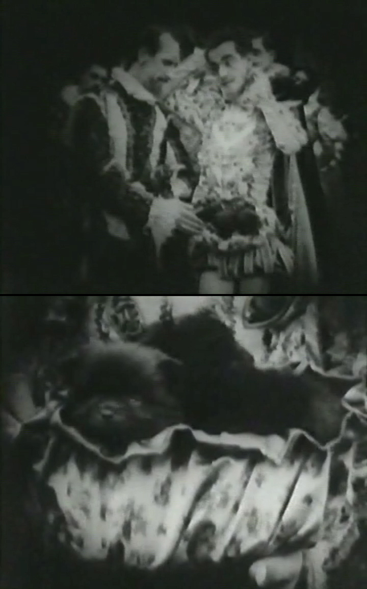 Scene from the movie Intolerance. 1916.